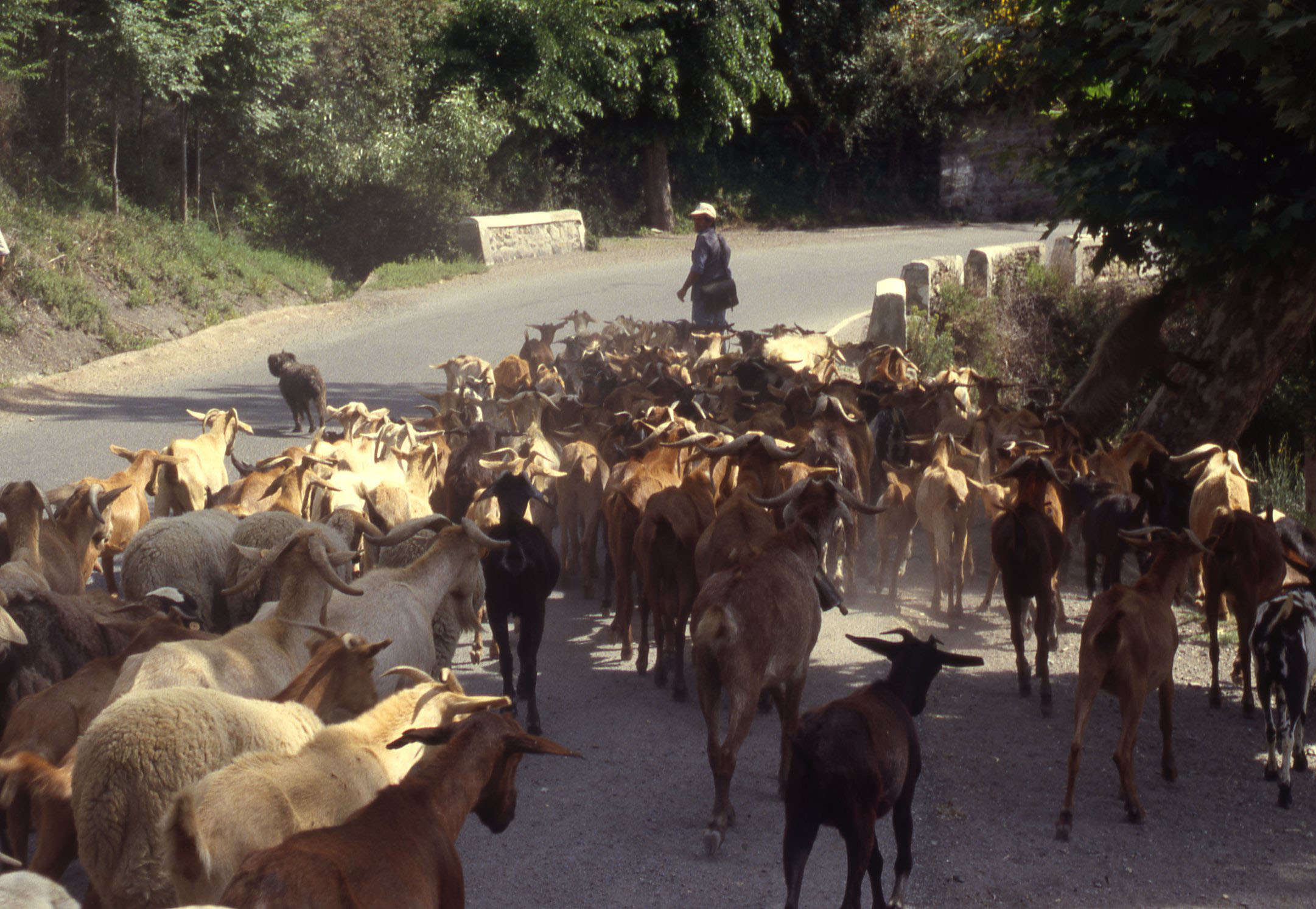 A goat herd in the Sierra Nevada mountains